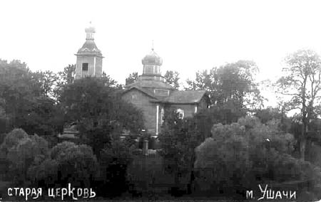 Non existent orthodox church of the Assumption in Ušačy